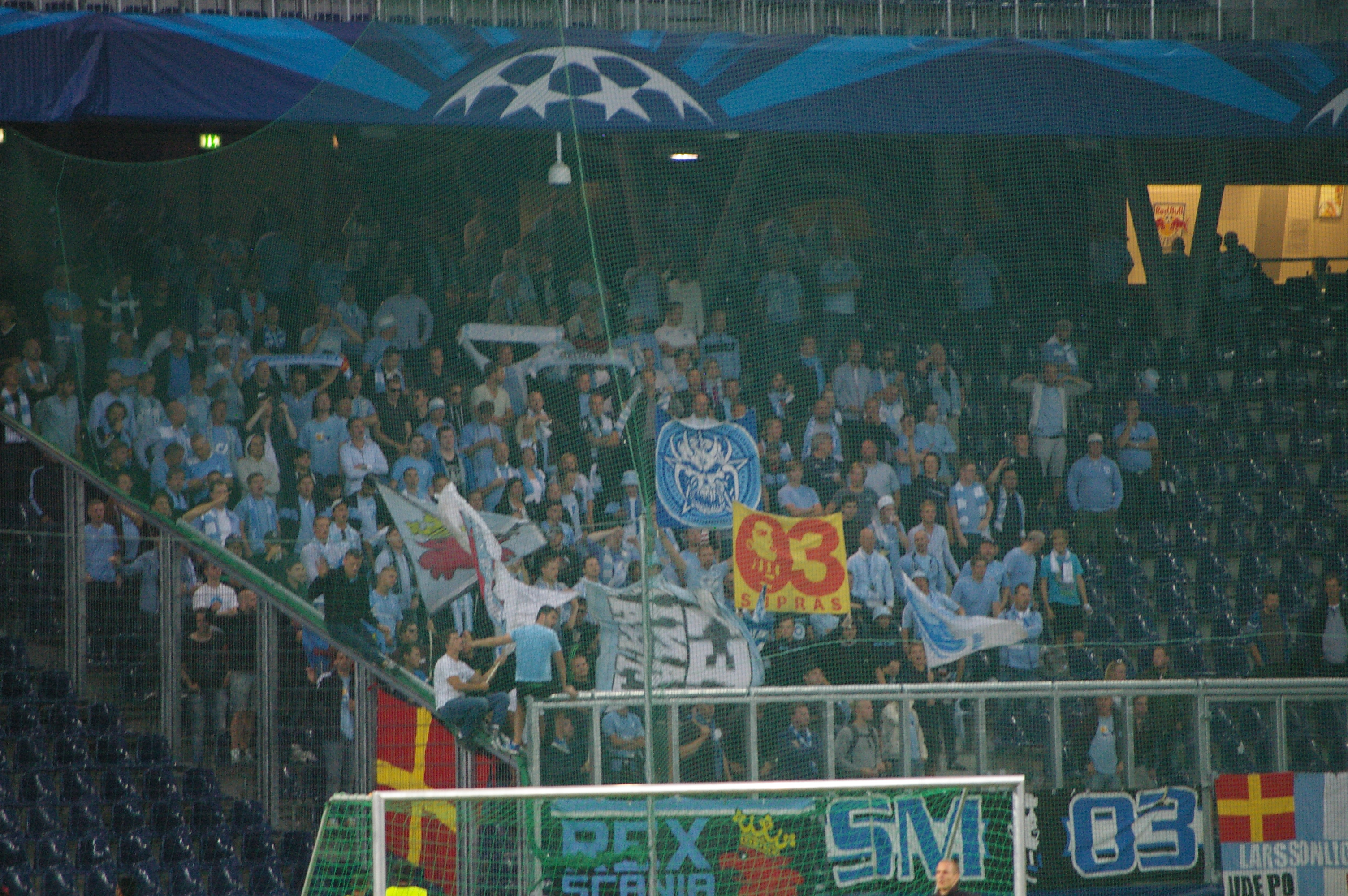 UEFA Championsleague play-off match